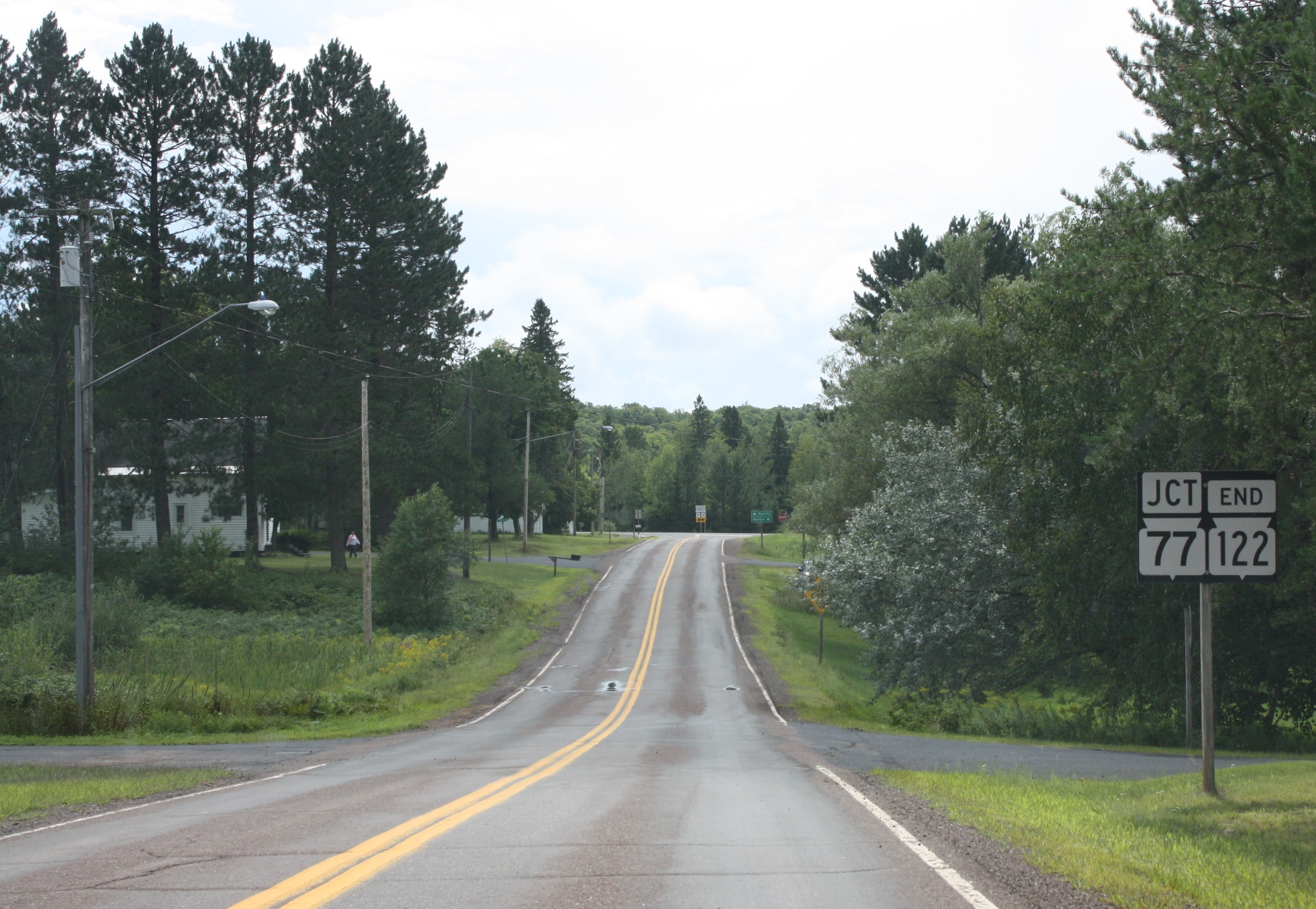 Looking south at the southern terminus for Wisconsin Highway 122 in Upson, Wisconsin.